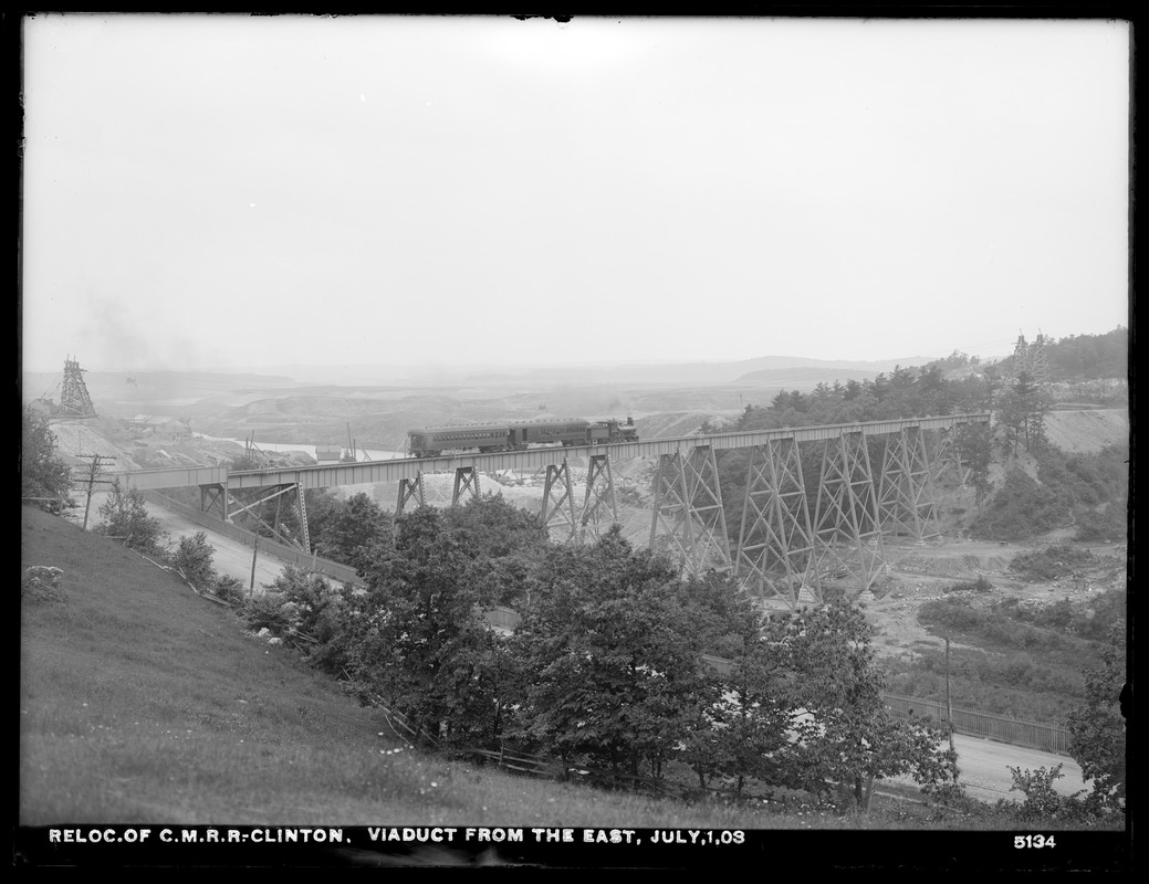 Central Massachusetts Railroad Relocation, viaduct from the east, Clinton, MA, Jul. 1, 1903